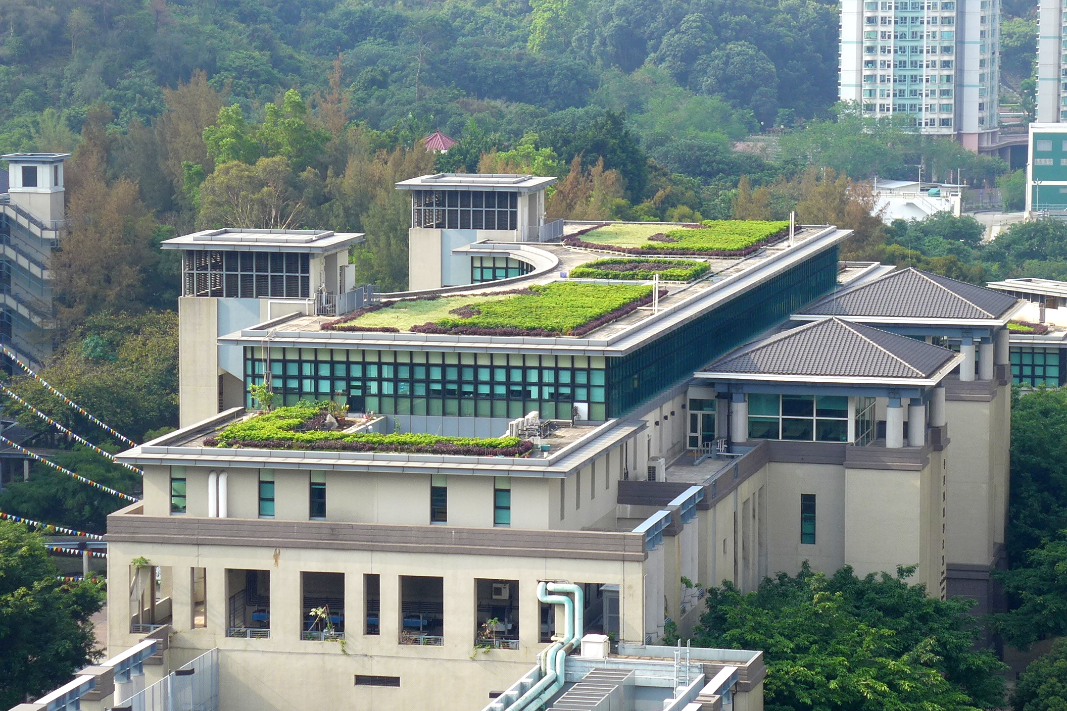 Lingnan University Green Roof